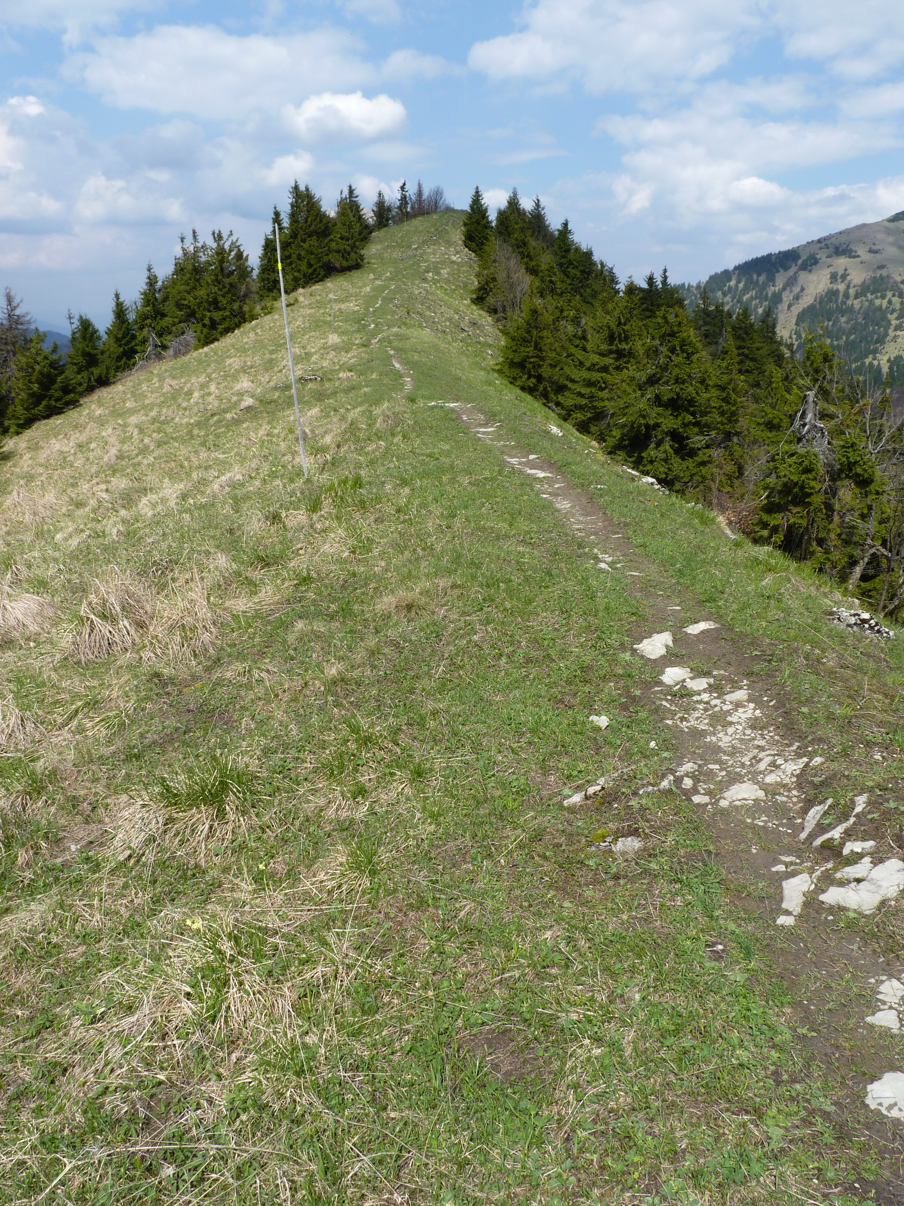 Great Fatra, Slovakia